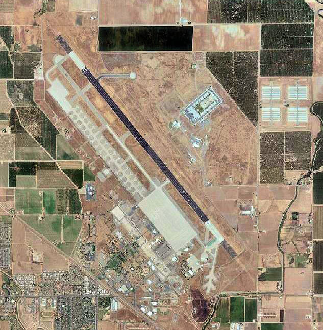 USGS digital orthophoto of Castle Airport (formerly Castle Air Force Base) in Merced, California, United States